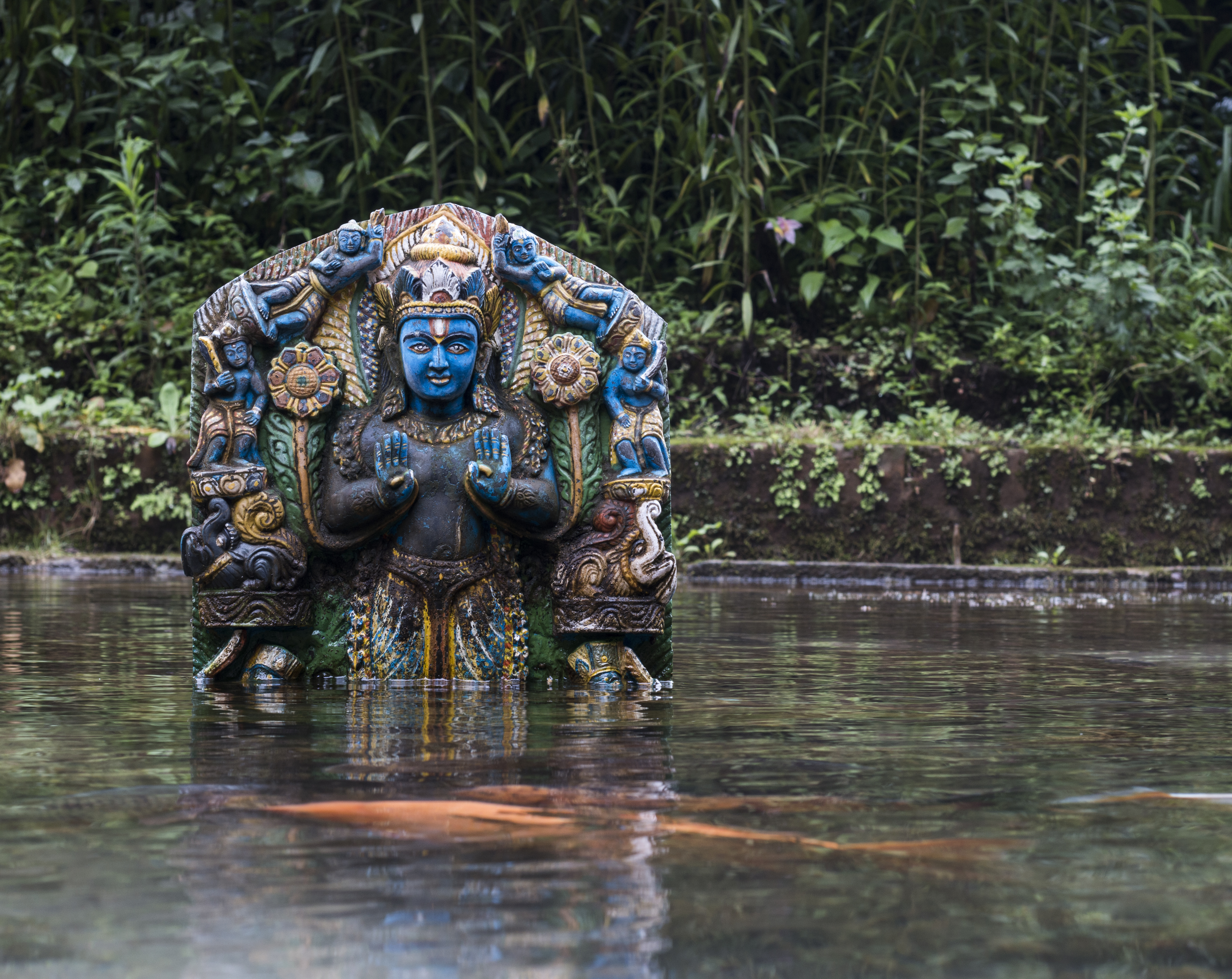 The God Vishnu sculpture of Sheshnarayan Temple was built in the 10th Century. The sculpture is made of stone. It is located near ancient town of Pharping, which lies approximately 20 kilometers south-west of Kathmandu. नेपाली: शेषनारायण मन्दिर प्राङ्गनमा रहेको भगवान विष्णुको मूर्तिको निर्माण १०औँ शताब्दीमा भएको हो । मूर्ति ढुङ्गाबाट निर्माण गरिएको छ । यो स्थान राजधानी काठमाडौंबाट २० किमी दक्षिणमा रहेको पौराणिक गाउँ फर्पिङ नजिकै अवस्थित छ ।